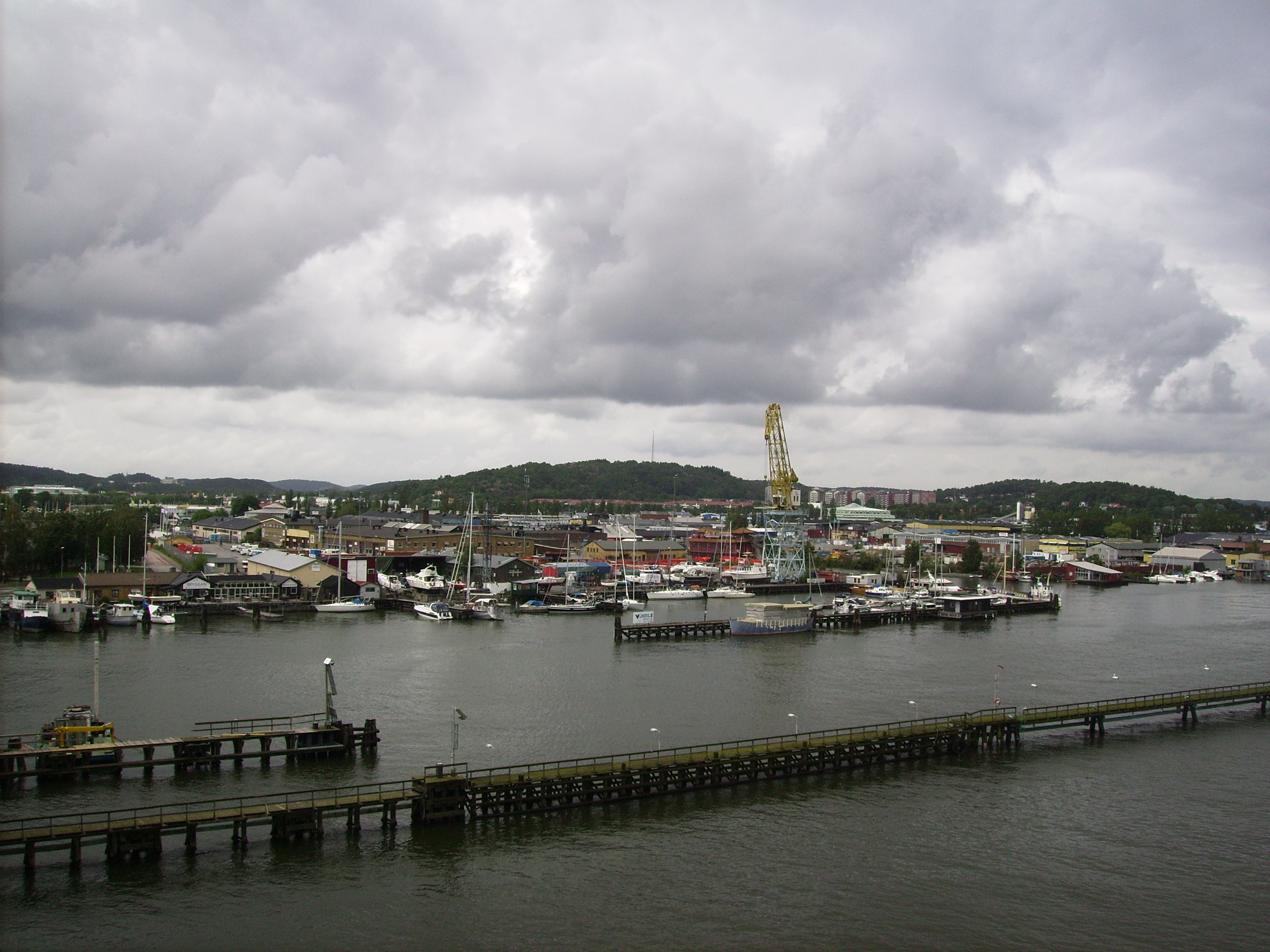 Picture of Ringön in Gothenburg